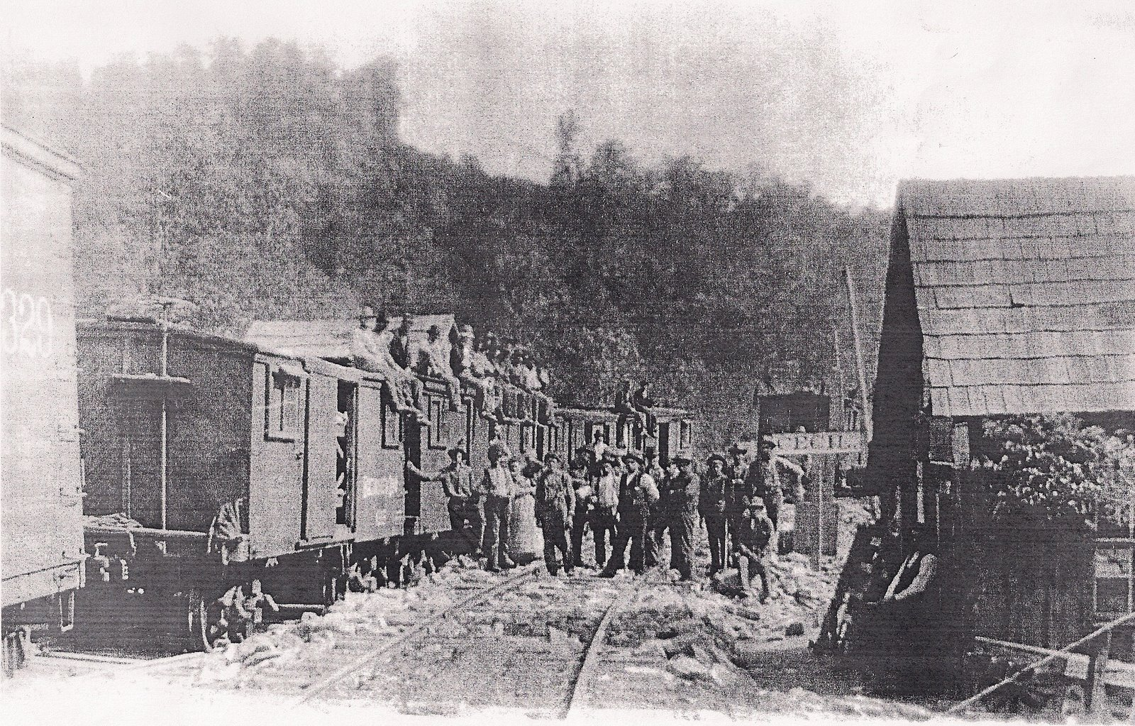 Cecil Train Station, Knottsville District, Taylor County, West Virginia, USA (ca. 1900). Small station on the B&O Railroad between Grafton and Philippi. The section of track depicted is now underwater in Tygart Lake.